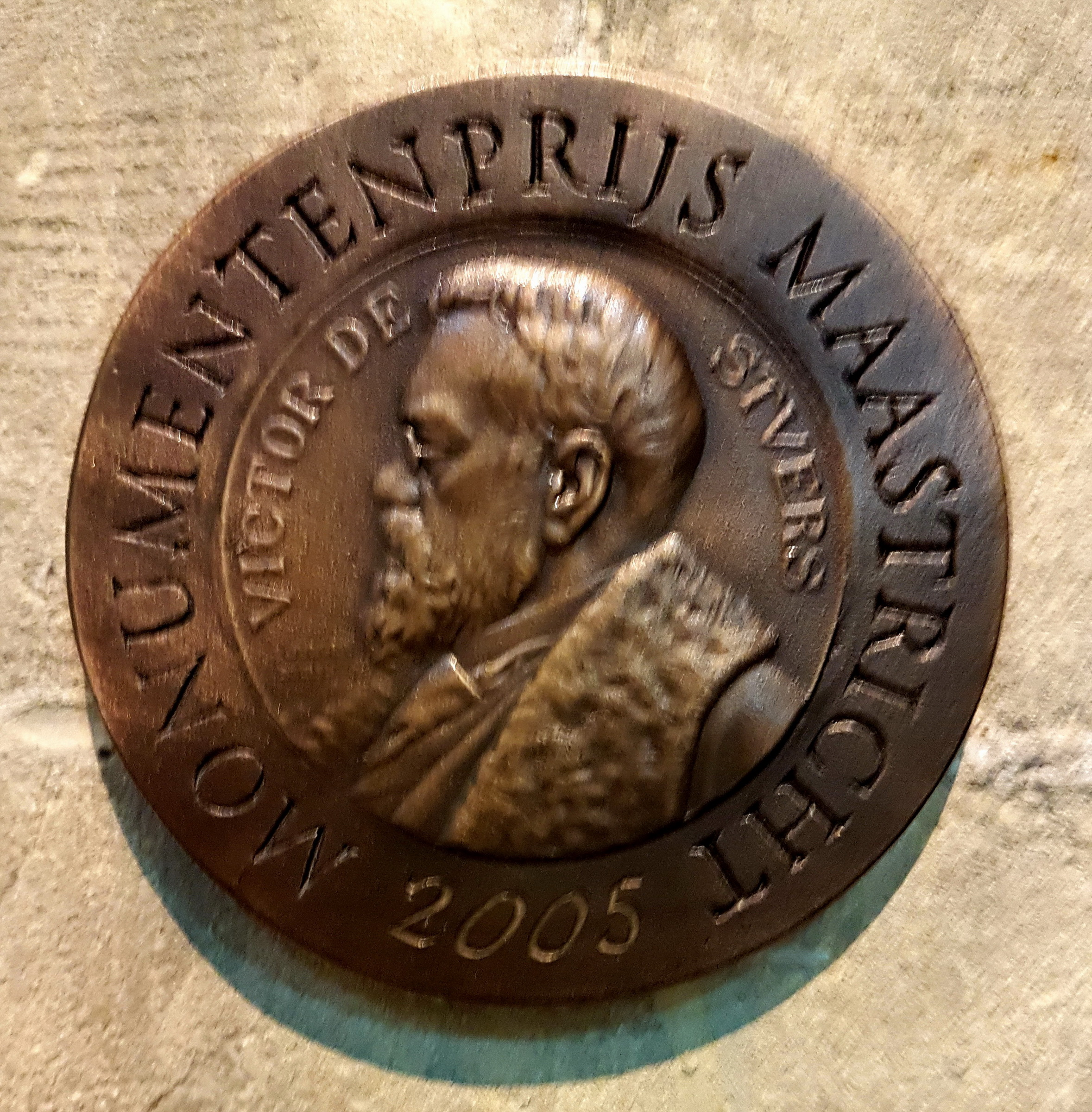 Commemorative plaque of the Monumentenprijs 2015 inside Kruisherenkerk, Maastricht, the Netherlands. The Gothic church and monastery of the Croziers (or Crutched Friars) dates from the 15th century and was converted into a luxury hotel (Kruisherenhotel) in 2003-05. The prize was given for the successful restoration and adaptation of the building to its new use. The prize is named after Victor de Stuers, native of Maastricht, and founder of the Dutch heritage organization (Monumentenzorg).